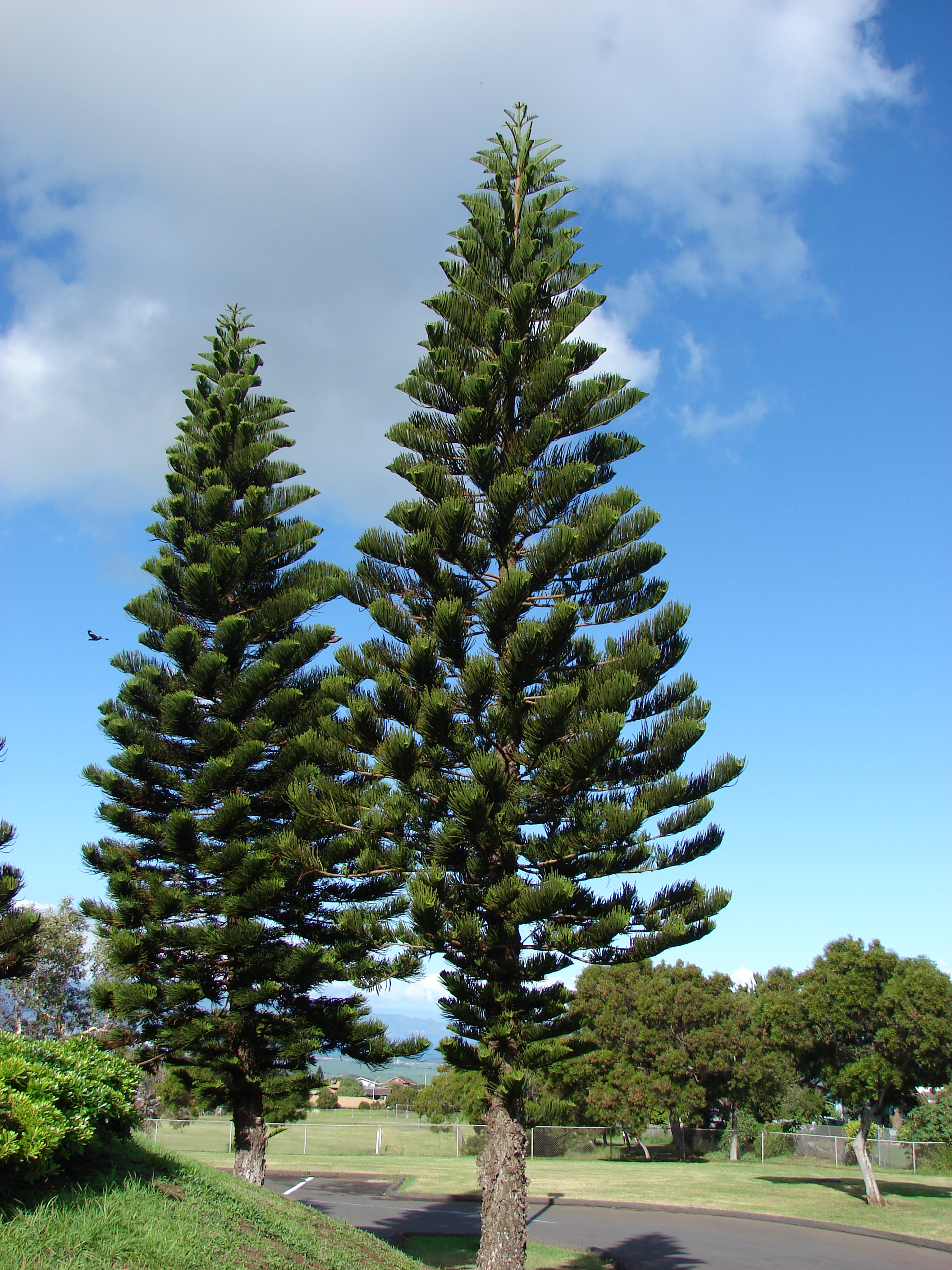 Araucaria columnaris (habit). Location: Maui, Pukalani Community Center